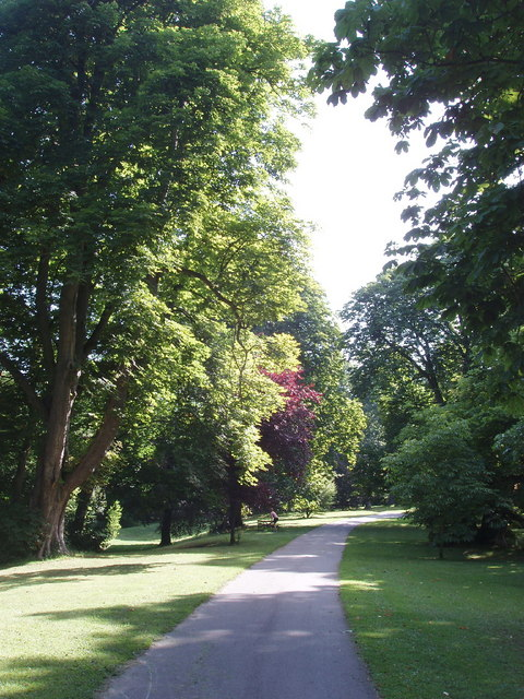 Headington Hill Park, Headington, Oxford, England. This land was part of the grounds of Headington Hill Hall, owned by the Morrell brewing family, until Oxford City Council bought the house and grounds in 1953. The council split off 20 acres to form the park, and rented out the house - initially to Robert Maxwell, later to Oxford Brookes University.